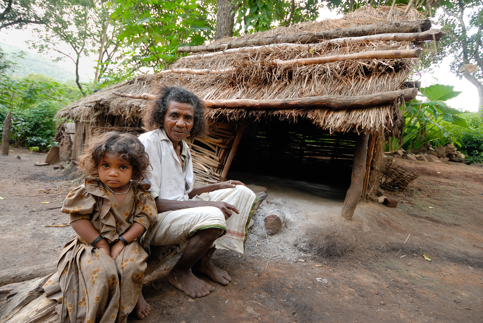 Traditionally the soliga tribes of BR hills used to live in small huts like these and this family still does. However, lately these people have been moving to houses made out of bricks.